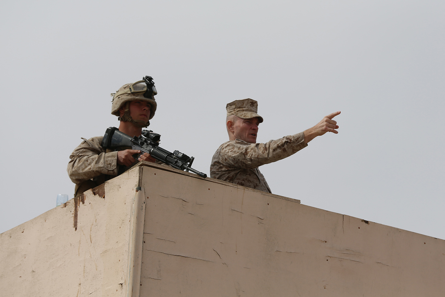 Sgt. Maj. Troy Black, sergeant major of the 11th Marine Expeditionary Unit (MEU), talks to Pfc. Gabriel Chatelain, a radio operator with Echo Company, Battalion Landing Team 2nd Battalion, 1st Marines, 11th MEU, during a visit to the company as they conduct simulated defensive operations from a reinforced location Nov. 5. The 11th MEU is deployed with the Makin Island Amphibious Ready Group (ARG) as a theater reserve and crisis response force throughout U.S. Central Command and the U.S. 5th Fleet area of responsibility. (U.S. Marine Corps photo by Sgt. Melissa Wenger/Not Released)